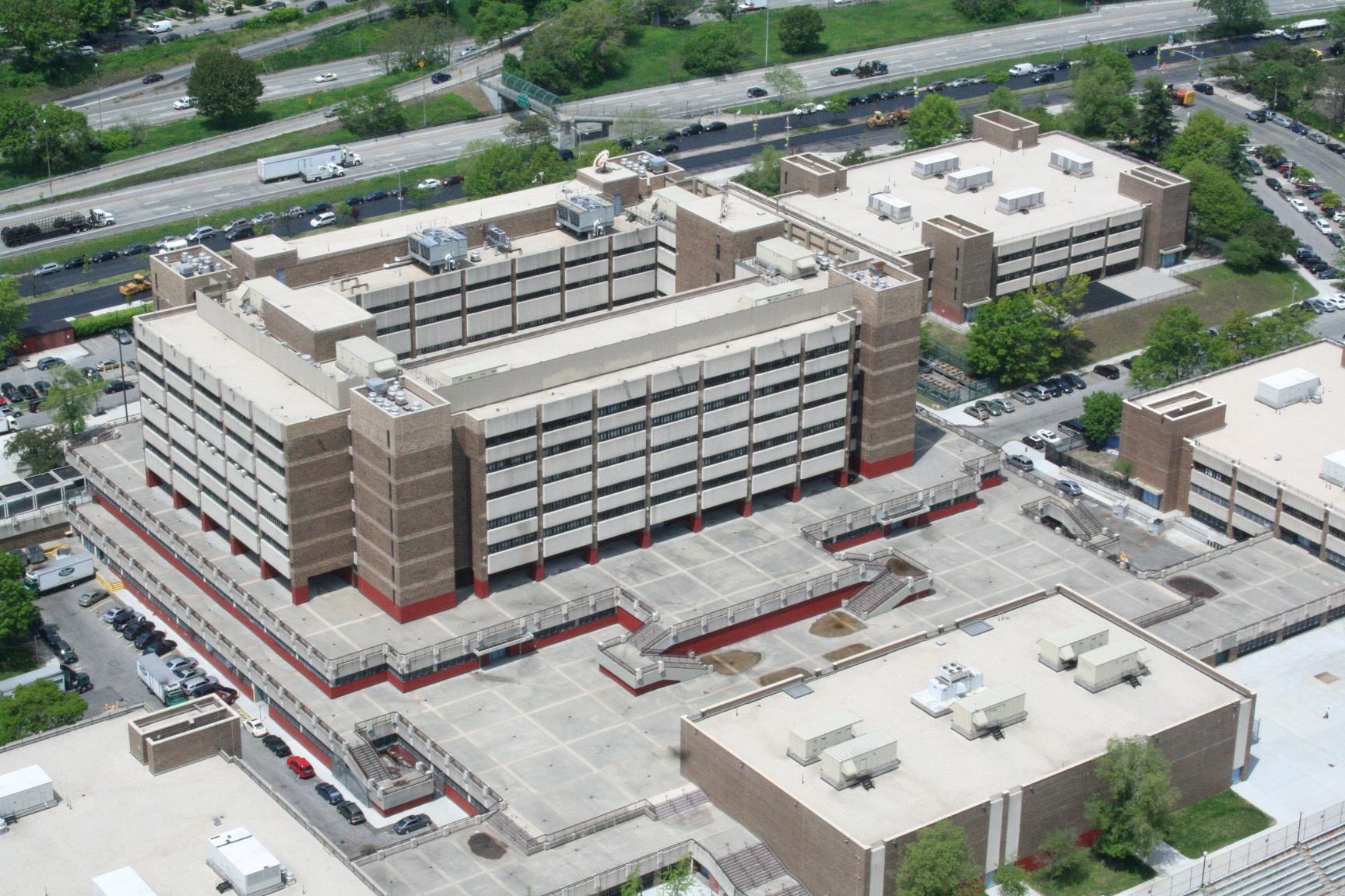 Aerial Image of the back side of Harry S truman High School and surrounding campus